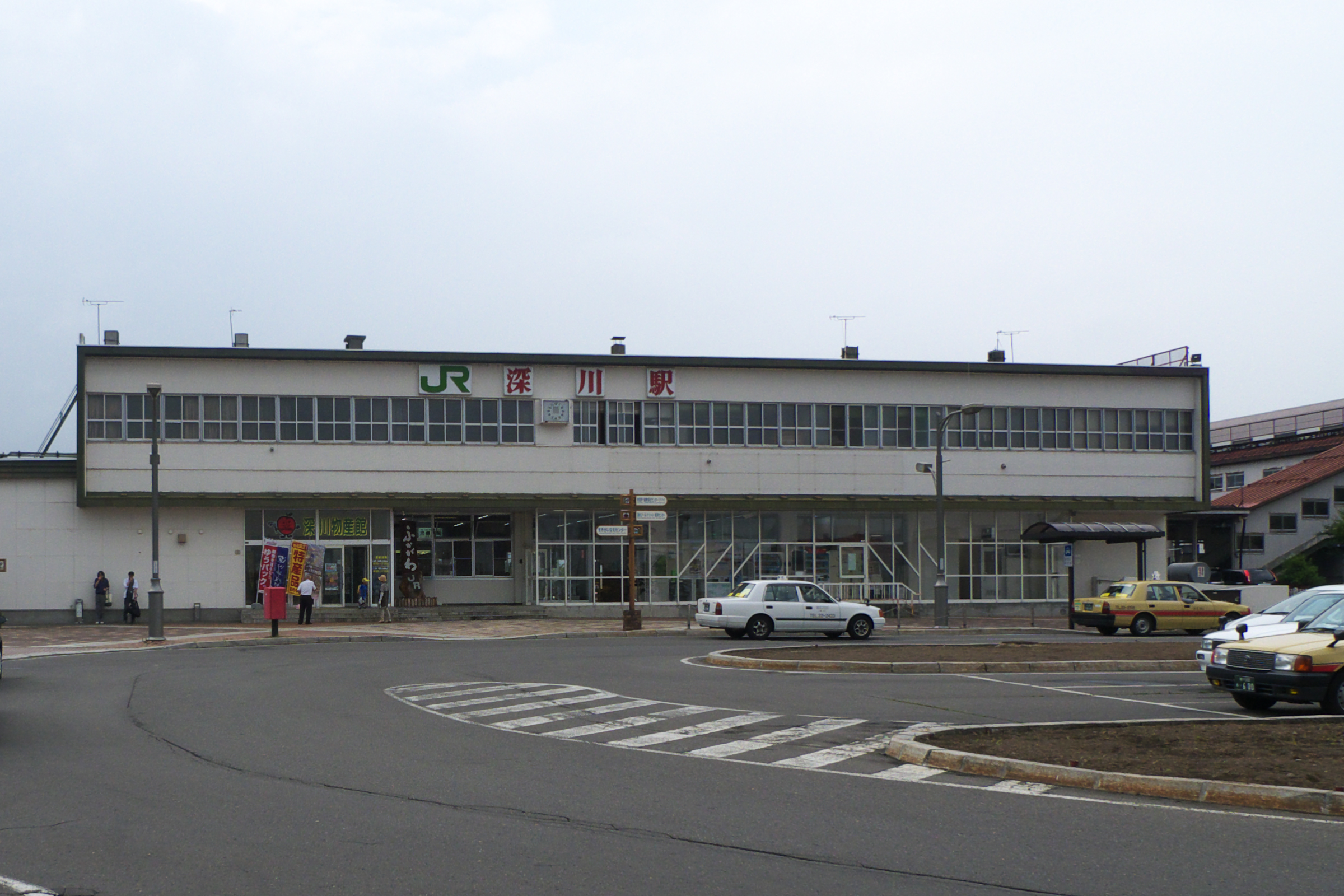 JR Hokkaido Fukagawa Station in Fukagawa, Hokkaido, Japan